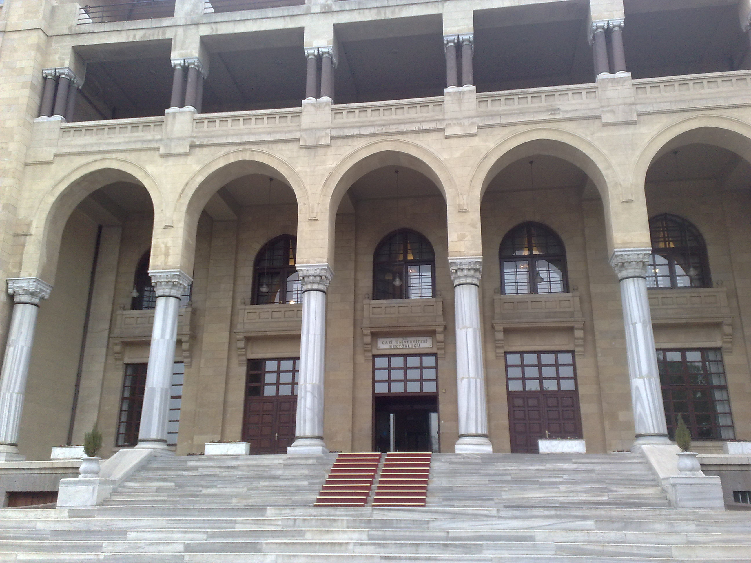 A view of the Gazi University Beşevler campus